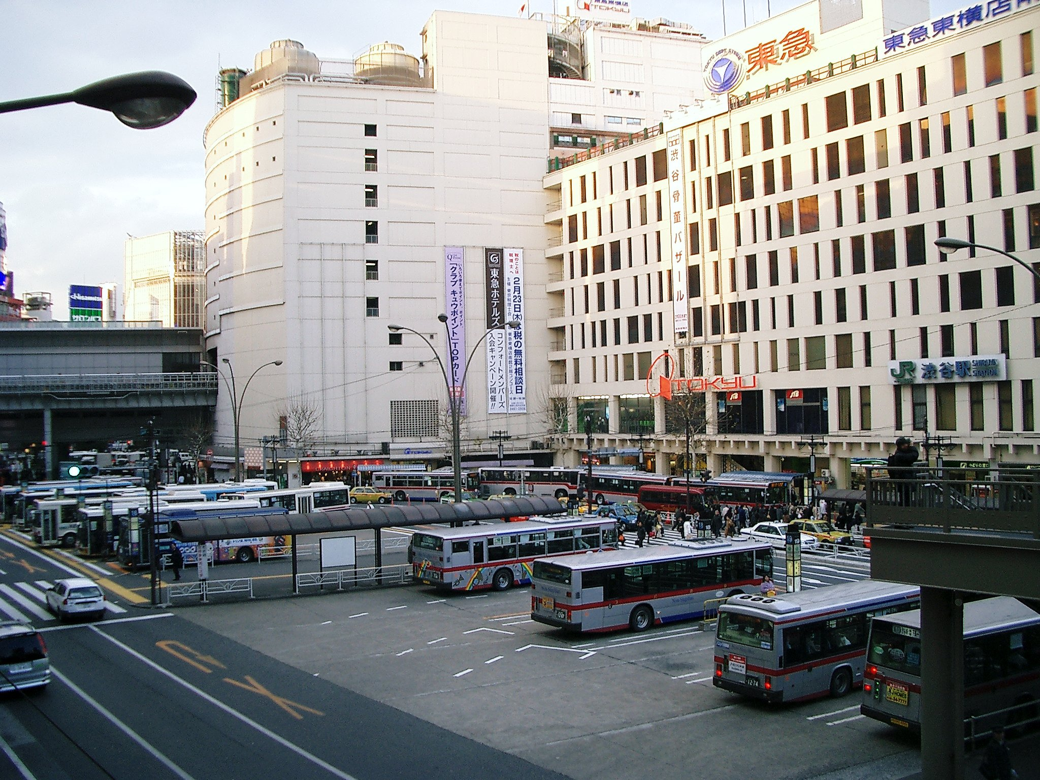 the bus terminal of Shibuya Station west exit 渋谷駅西口バスターミナル